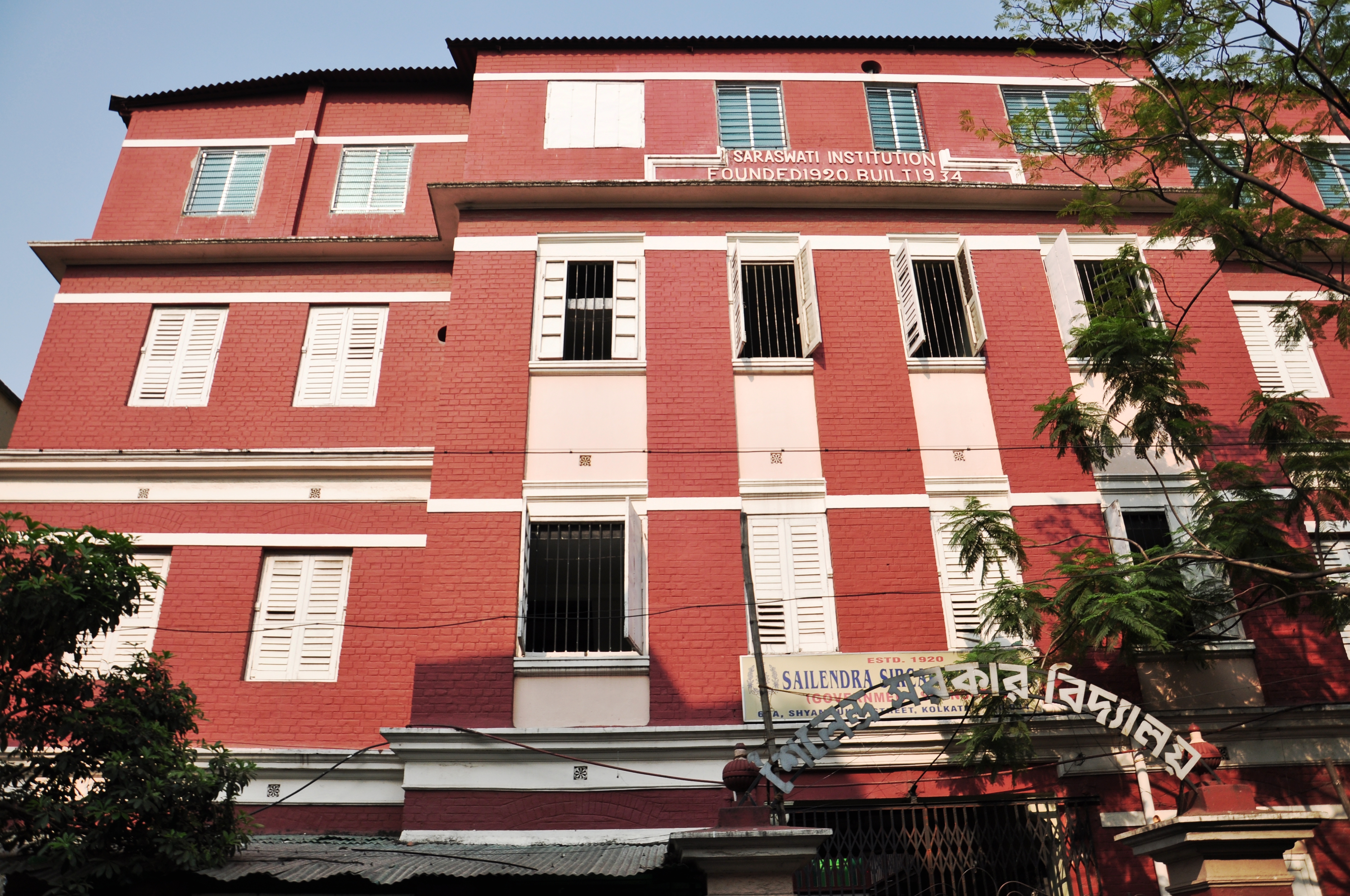 Present main school building